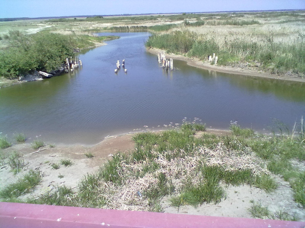 Останки старого "Пановского моста"